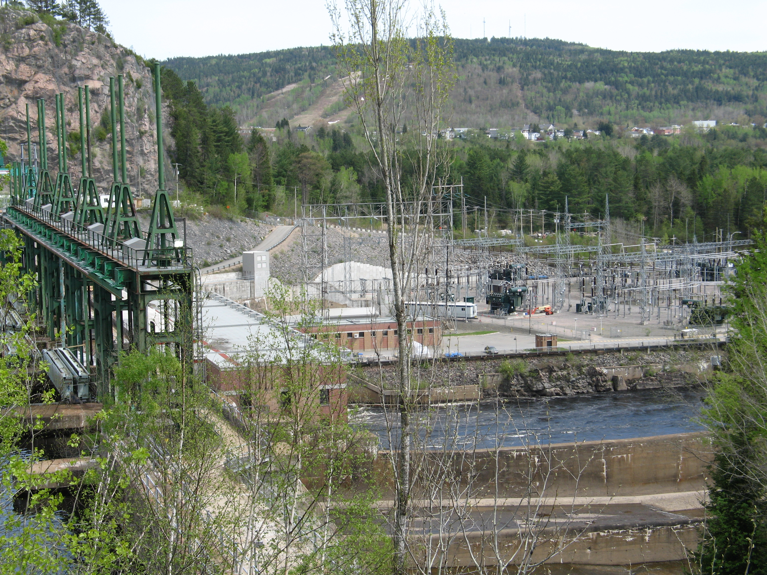 Terminal station of Hydro-Québec's La Tuque generating station, in La Tuque, Quebec. This 263-MW power station has been inaugurated in 1940.